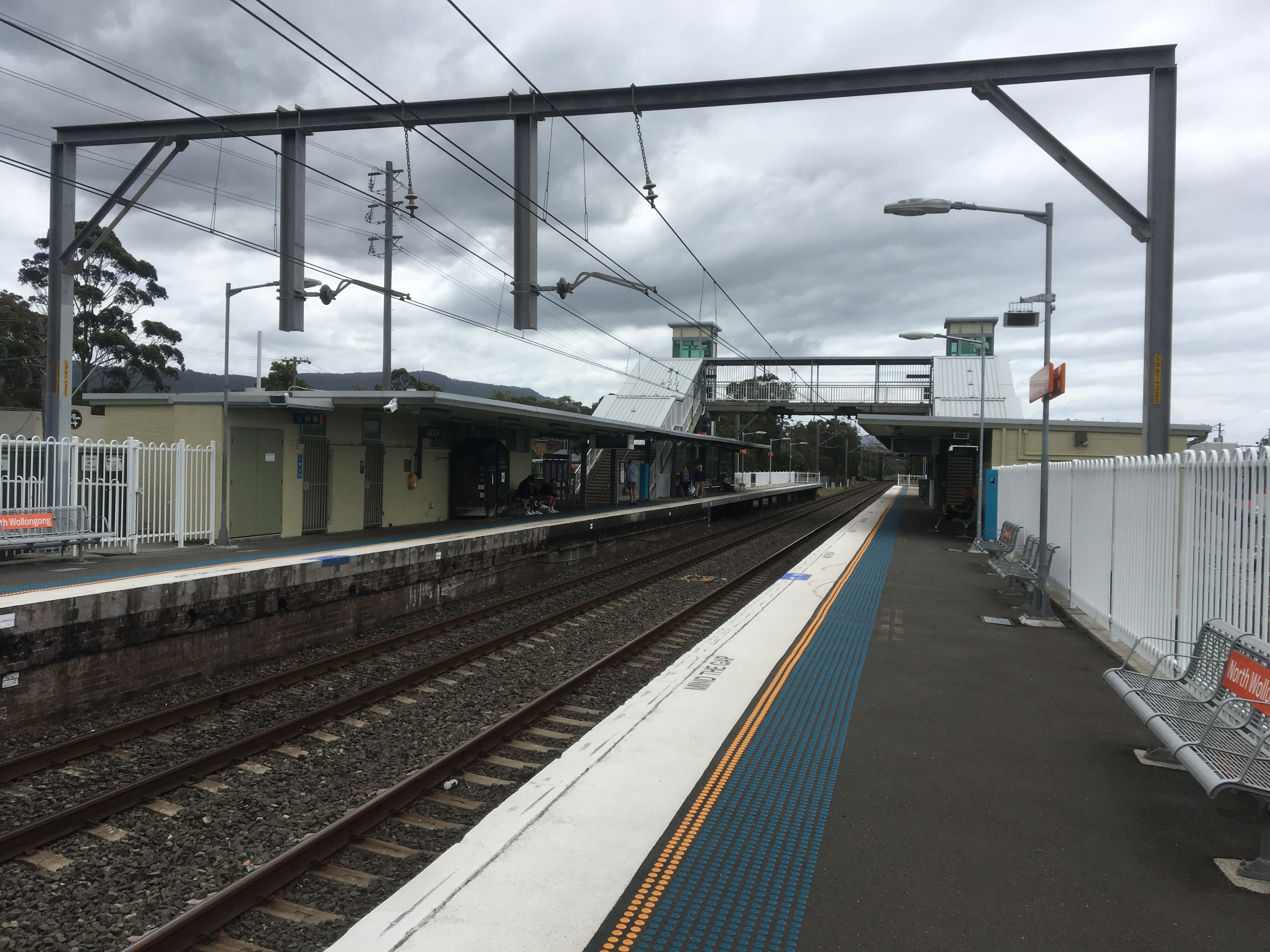 Northbound view from Platform 2 showing track and platform at North Wollongong railway station.